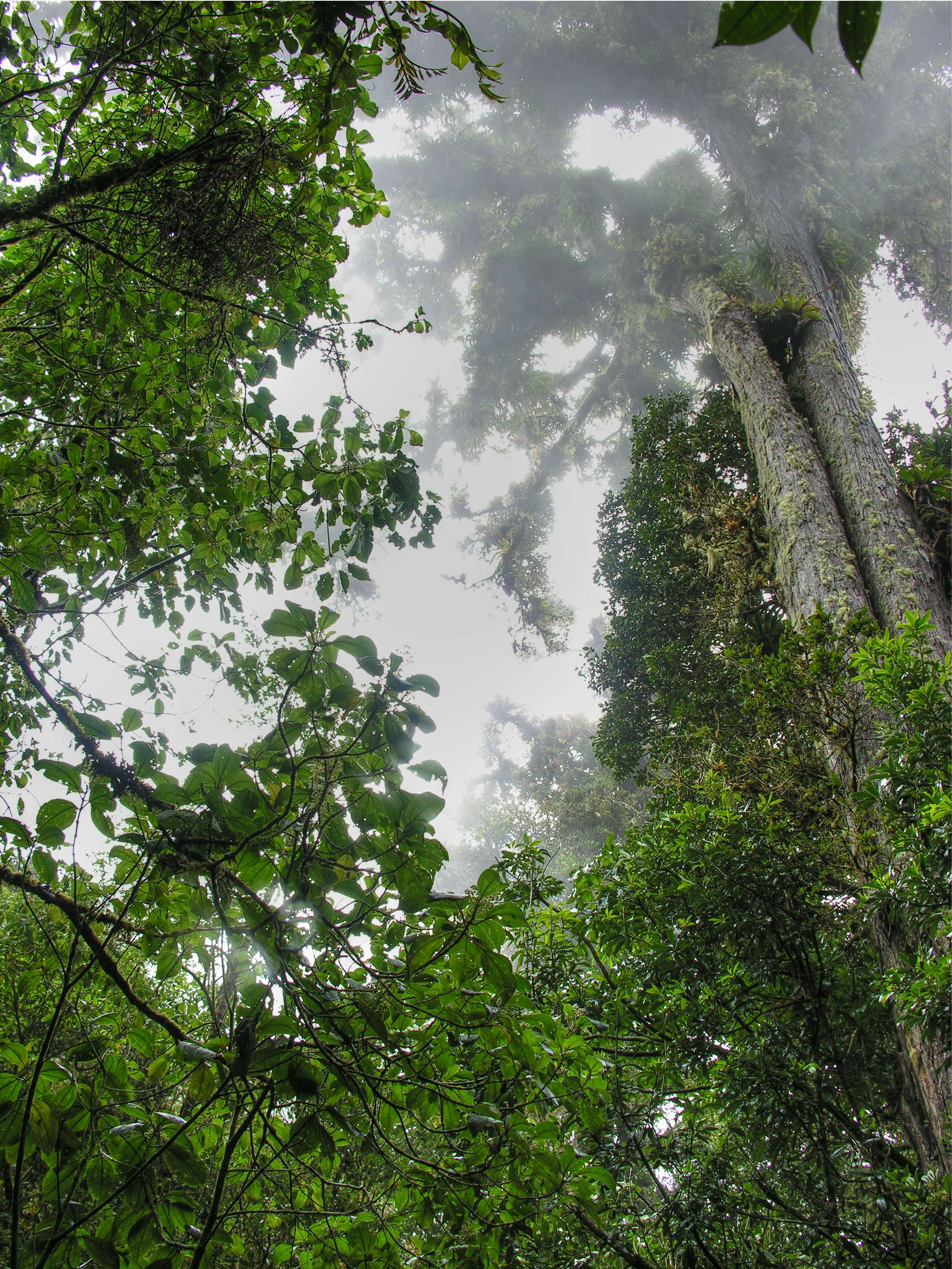 Barva Volcano's landscape